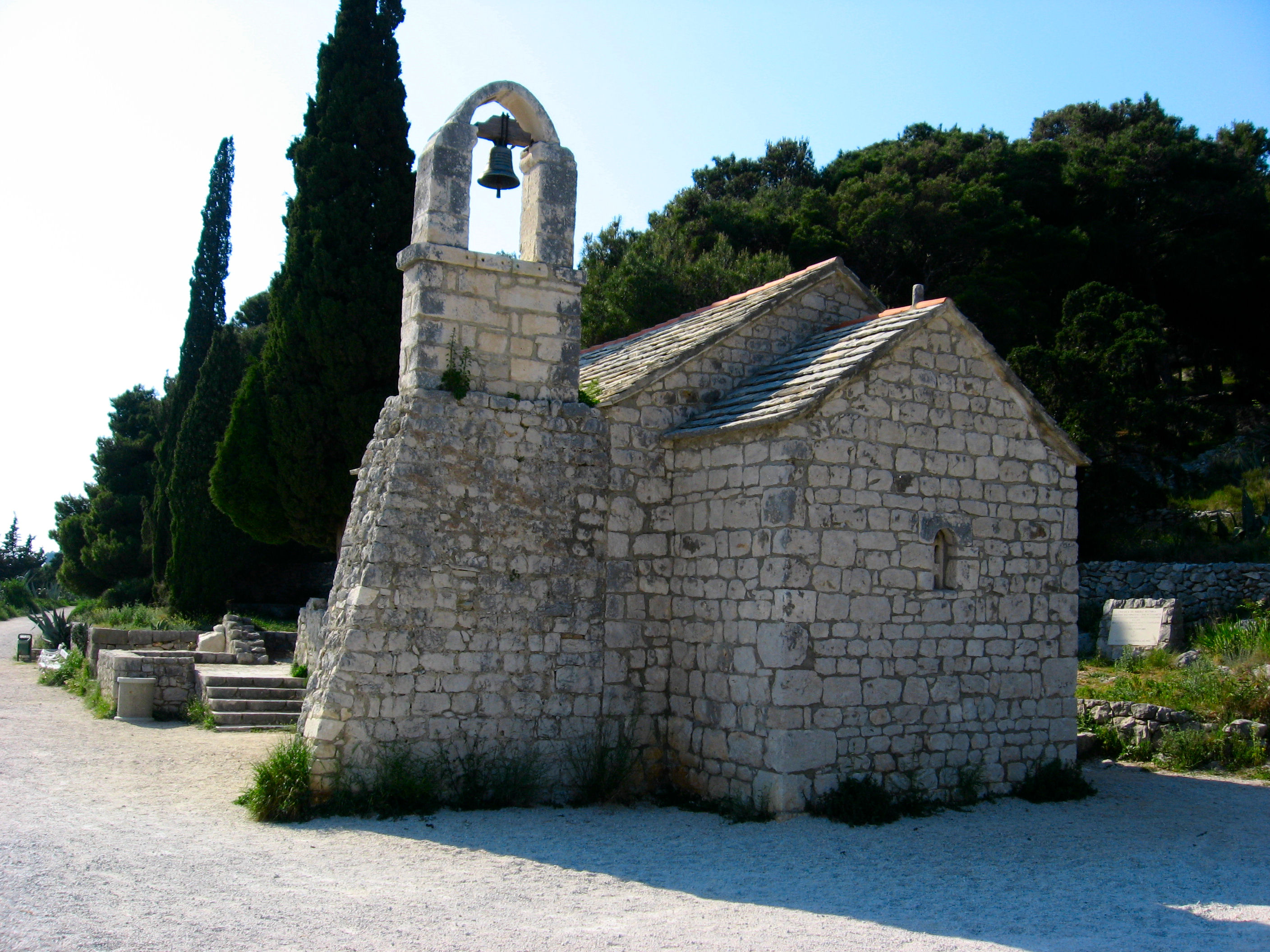 Crkvica Svetog Nikole u Splitu/St. Nicholas old church in Split